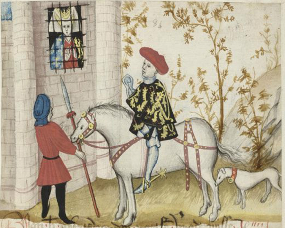 Maria imprisoned and her brother, John I